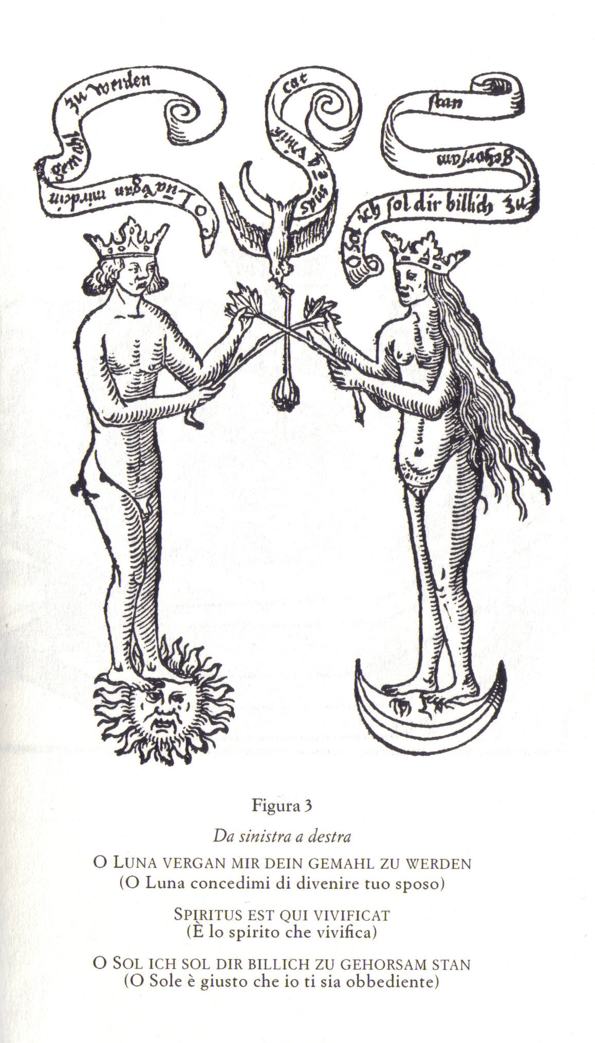 Rosarium Philosophorum: integrazione Anima e Animus